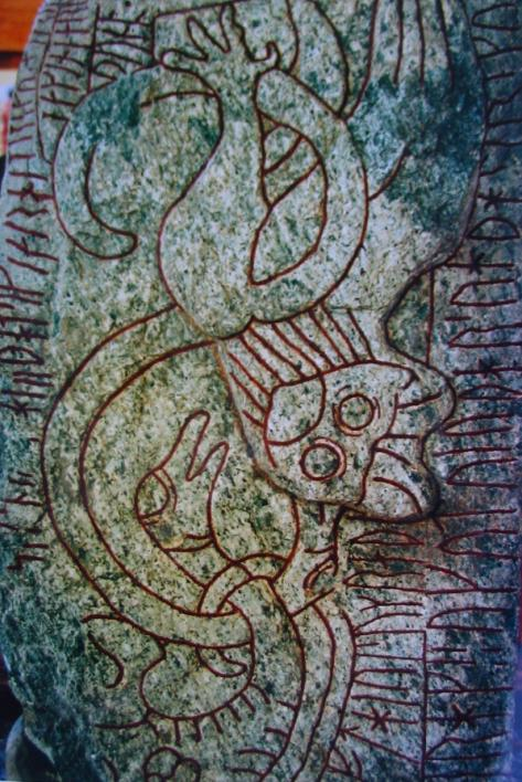 Close up on panel C of the Sparlösa rune stone